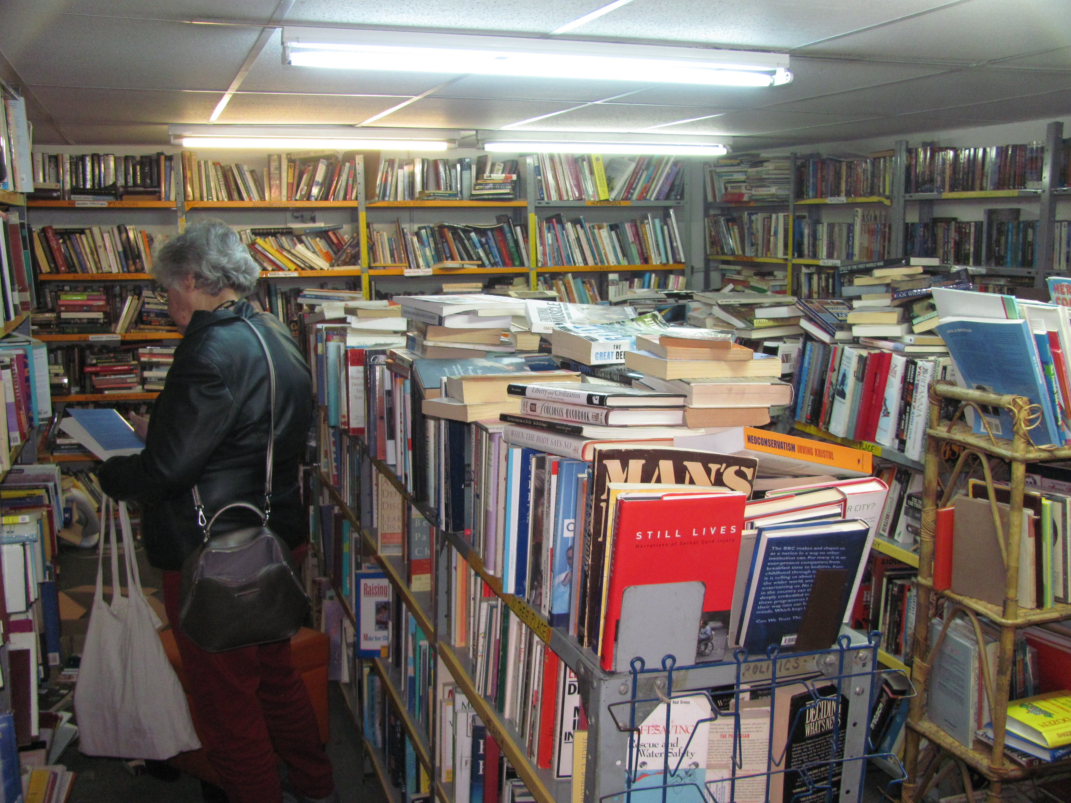 Upstairs display in Sefer ve Sefel secondhand bookshop, 2 Ya'avetz St., Jerusalem, Israel